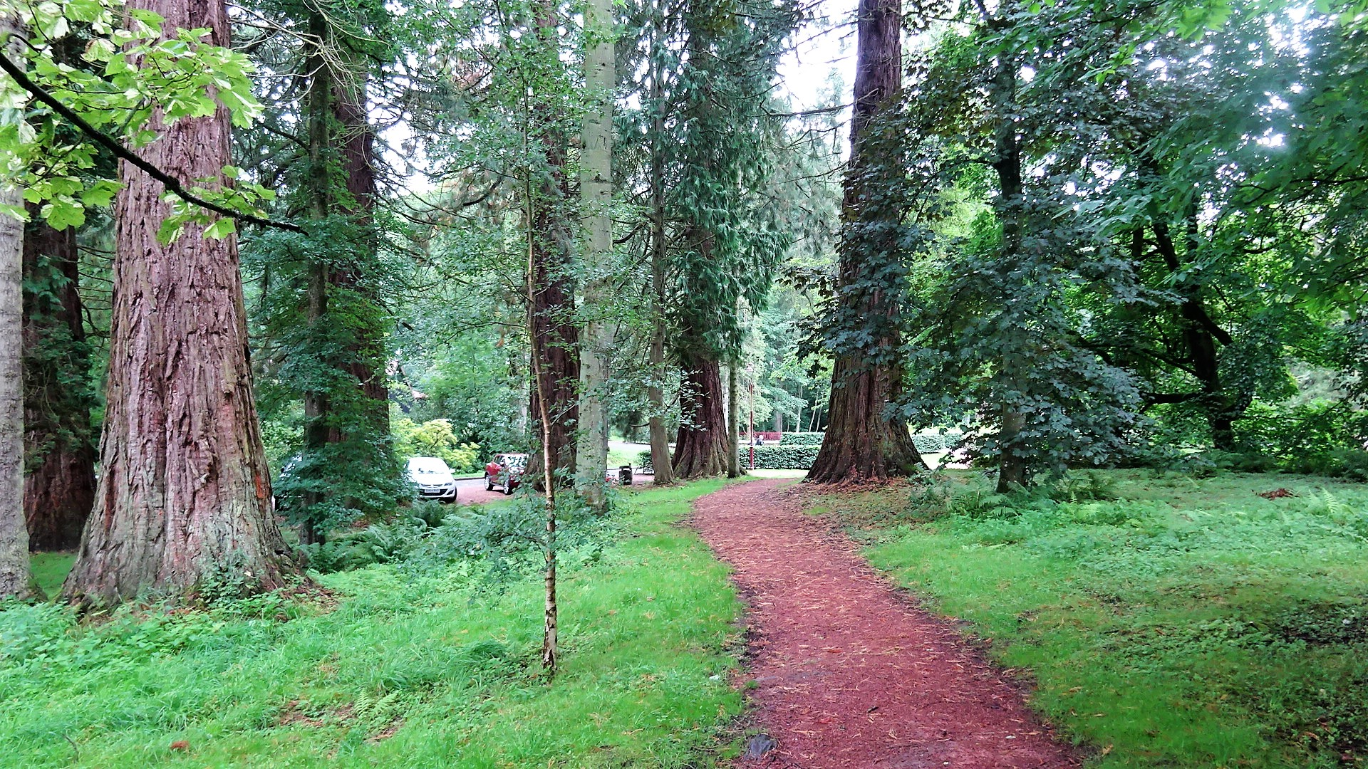 Old Leifnorris Castle site, Dumfries House, Cumnock, Ayrshire